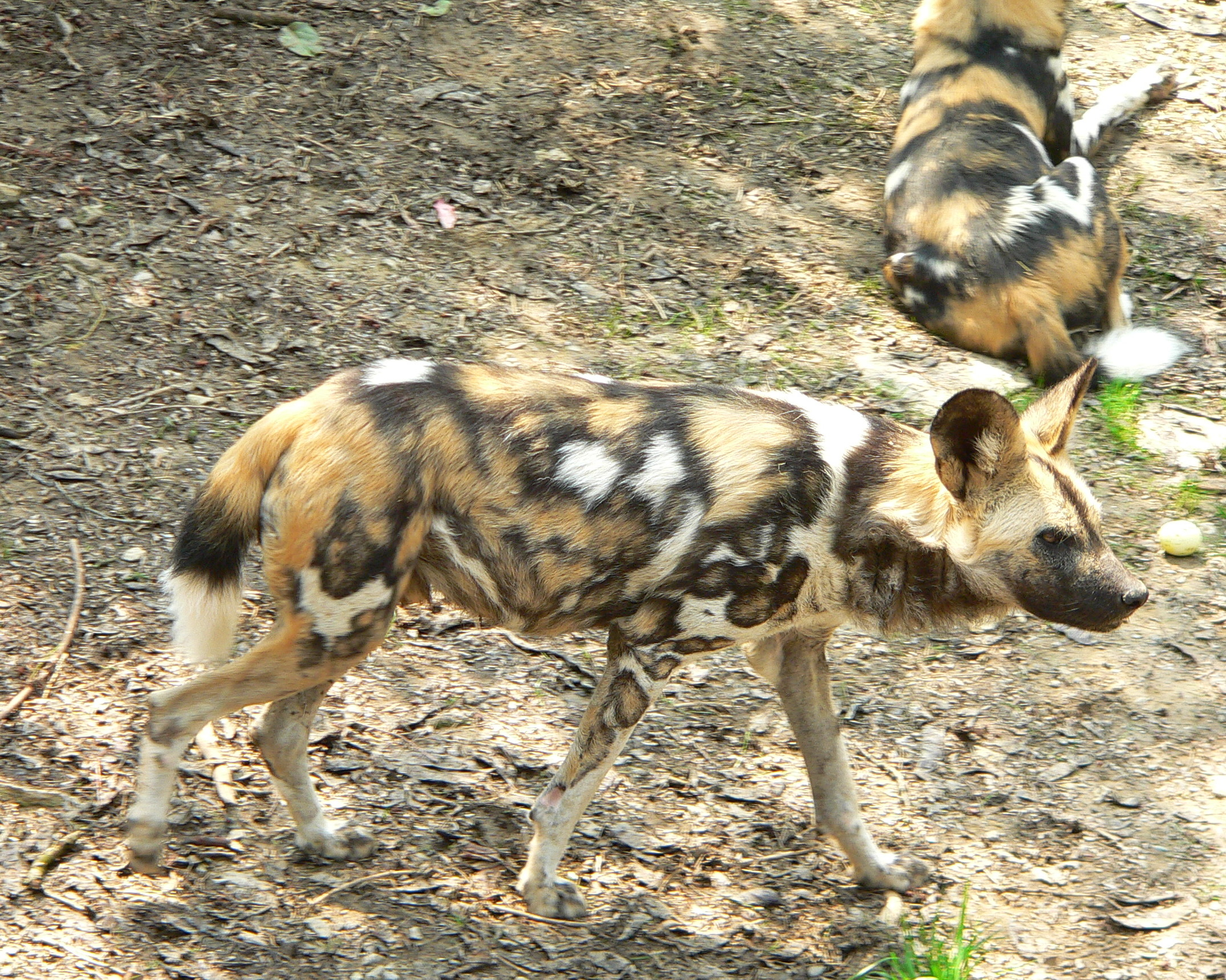 African wild dog- Lycaon pictus at the Cincinnati Zoo.